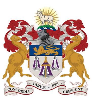 The Worshipful Company of Merchant Taylors